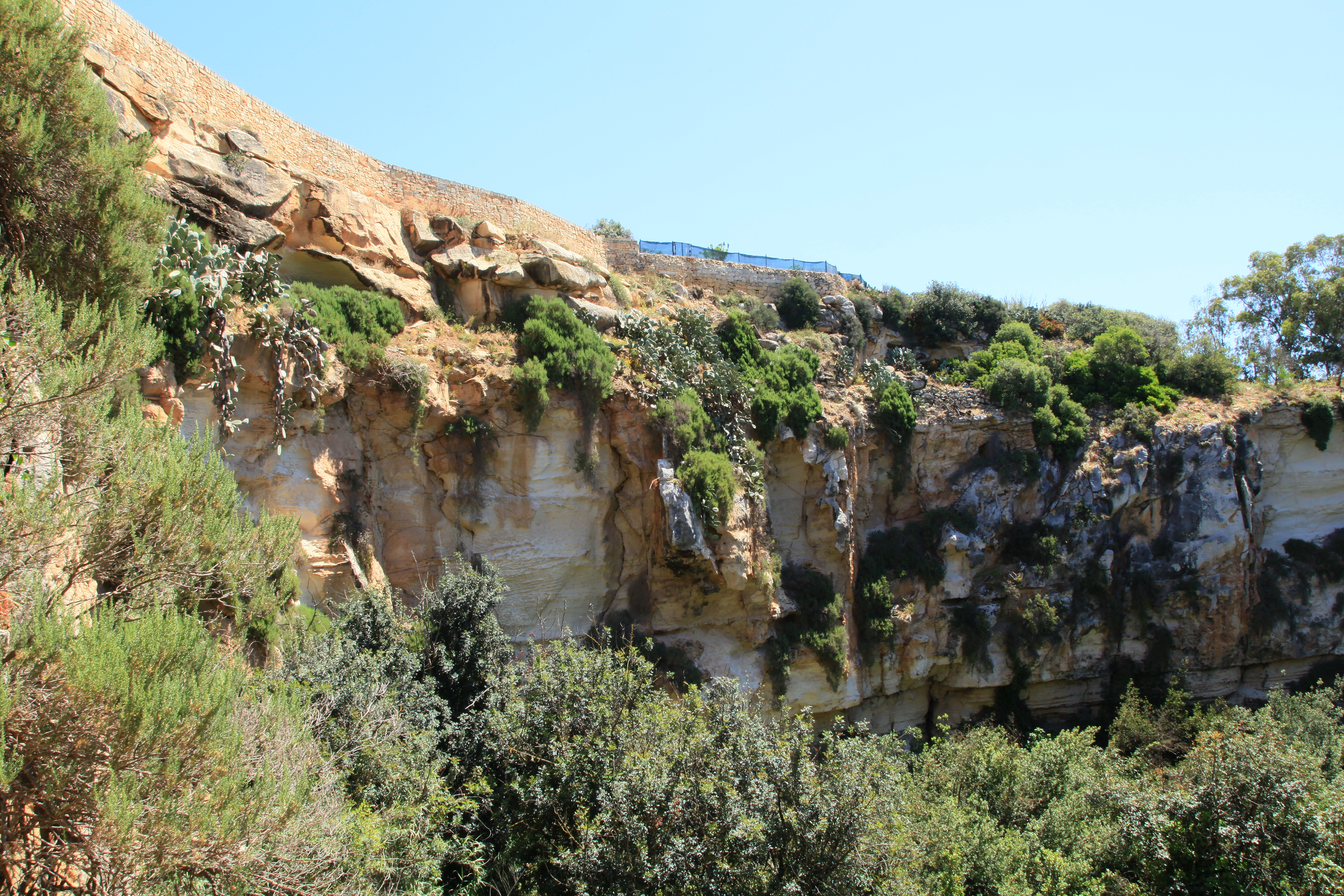 Il-Maqluba, Misraħ tal-Maqluba in Qrendi, Malta